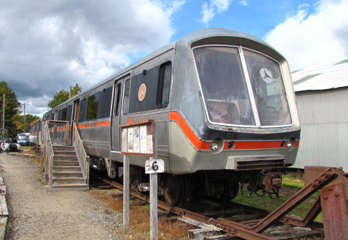 SOAC 1 & 2 on display at the Seashore Trolley Museum in Kennebunk Maine 2009